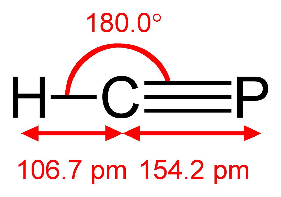 Bond lengths of the phosphaethyne molecule, HCP. Structure of the ground electronic state determined by infrared (vibrational) and microwave (rotational) spectroscopy. Data from Chem. Phys. Lett. (2002) 365, 57-68.